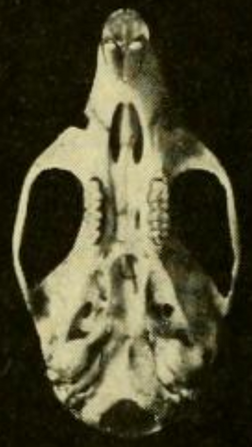 Ventral view of skull of Oryzomys talamancae (now Transandinomys talamancae). This is specimen USNM 170981, an adult male from Gatun, Panama.